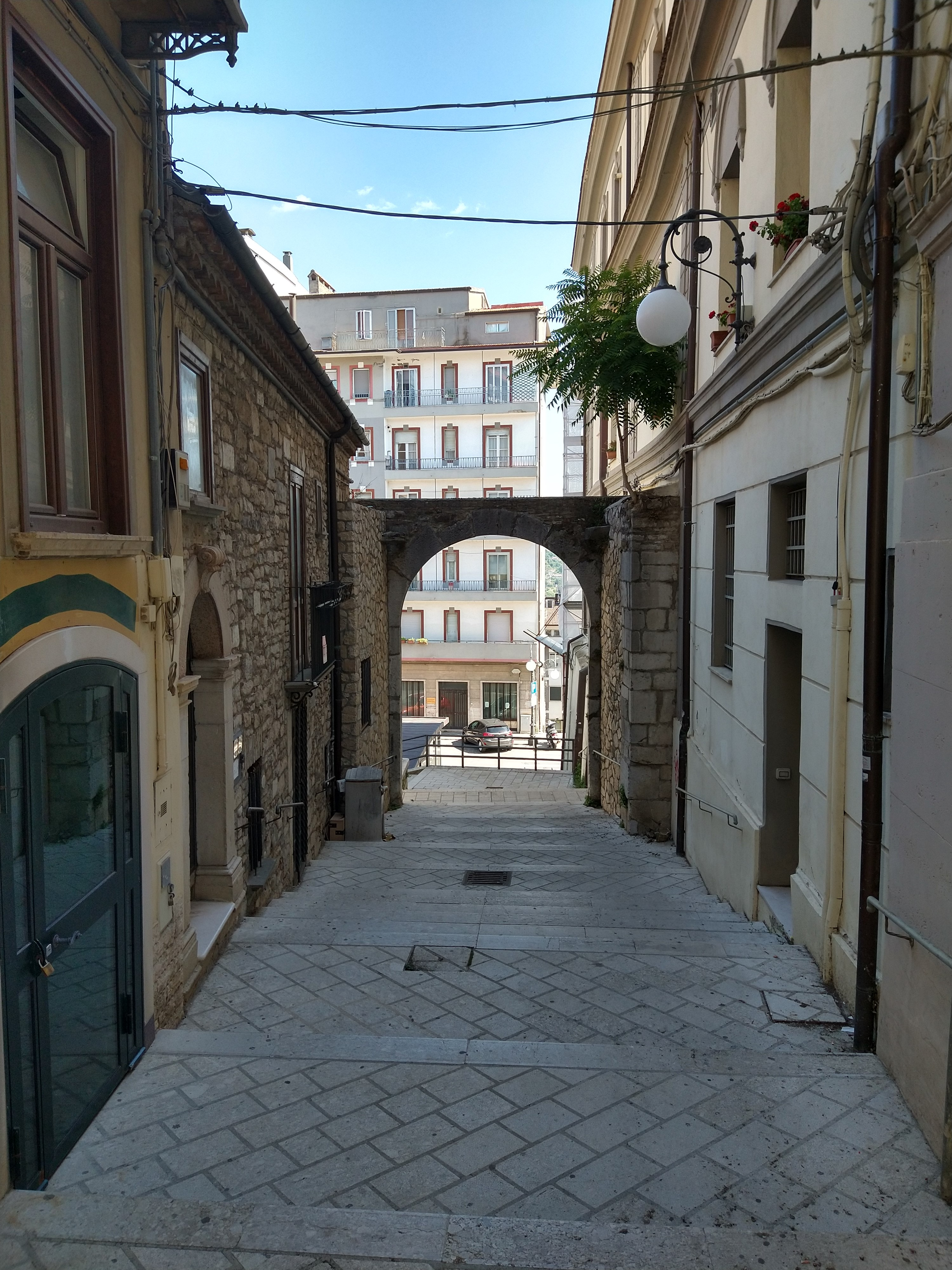 Porta San Luca, one of the medieval gates of the walls of Potenza, Italy.